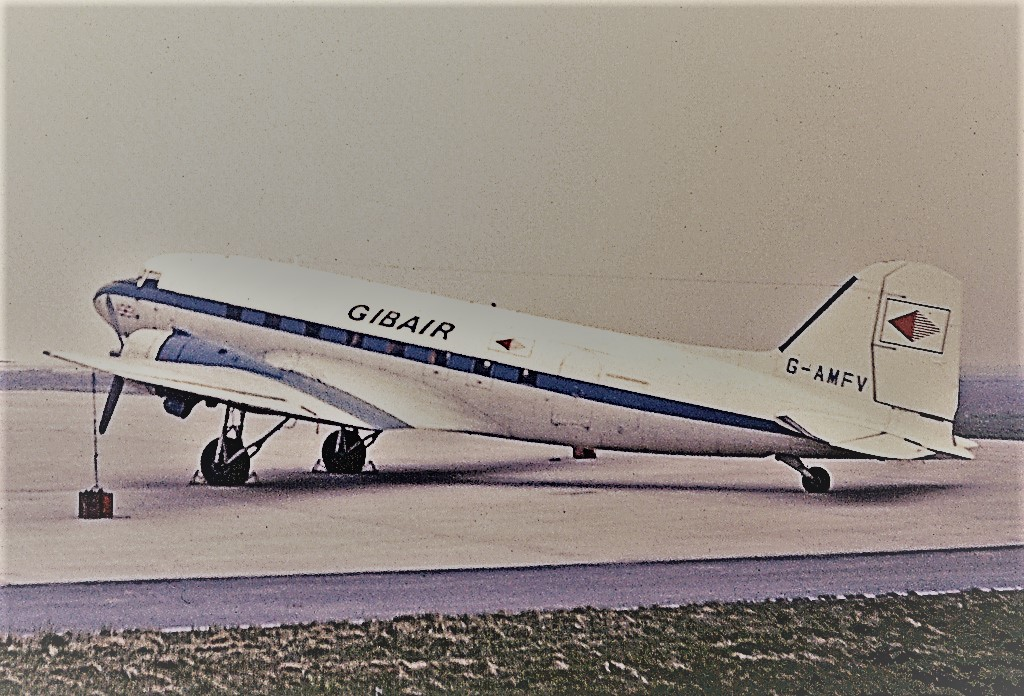 Douglas C-47A (DC-3) G-AMFV of GibAir at East Midlands Airport in 1970